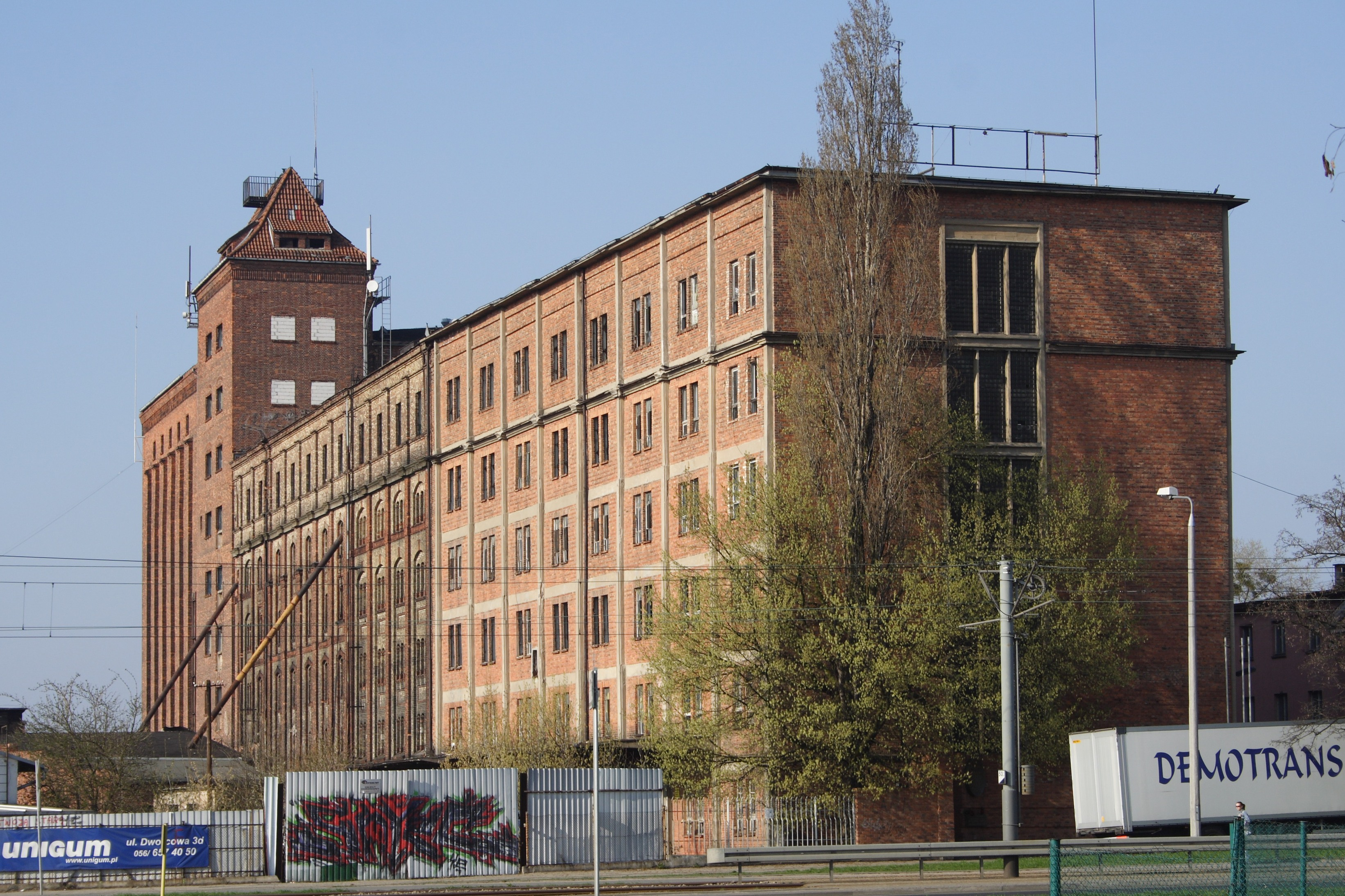 Toruń, Mokre district, old steam mill (so-called Richter's mill).